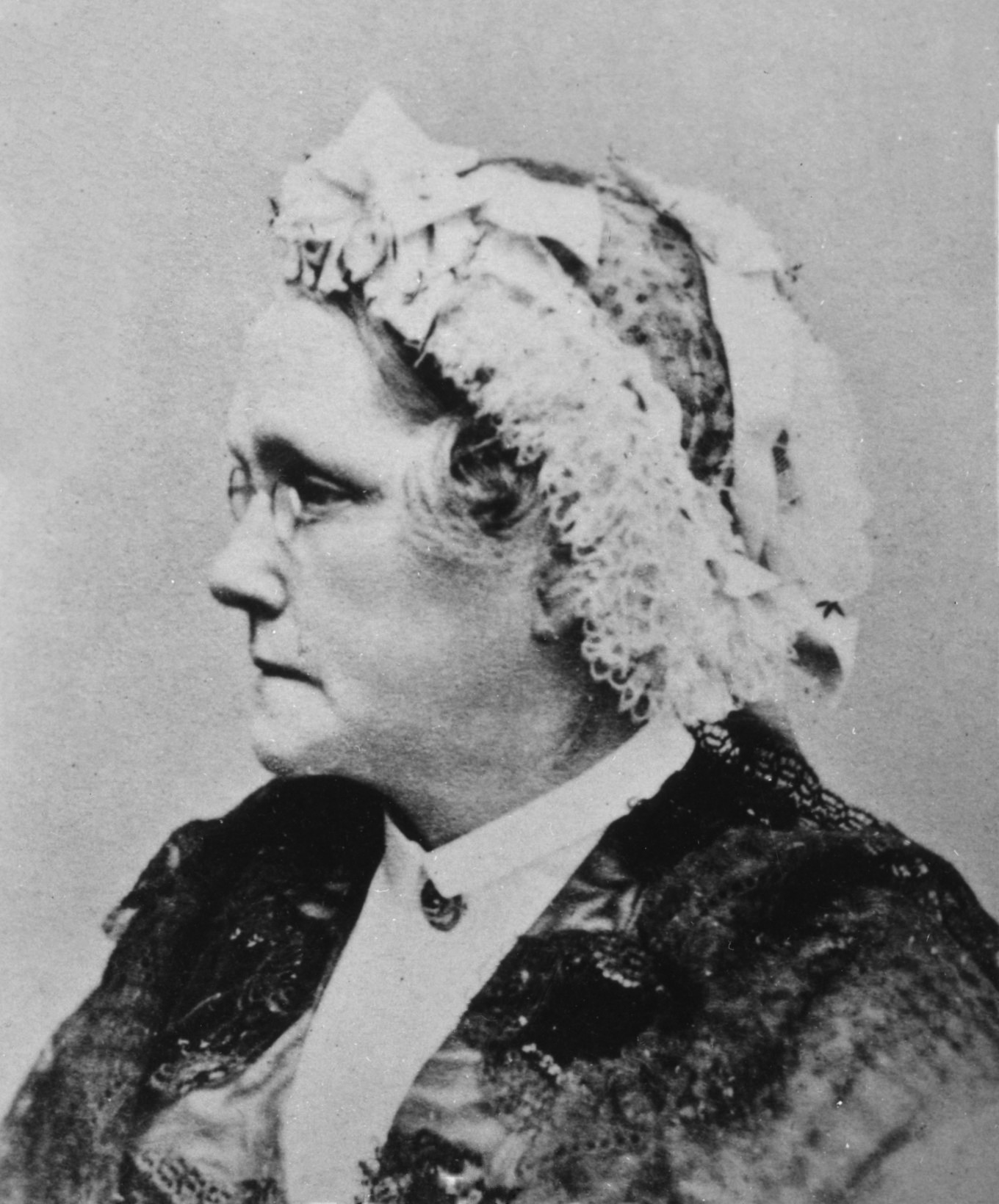 Sarah Cooper (1793-1869 Sarah Bedell) was the wife of Peter Cooper